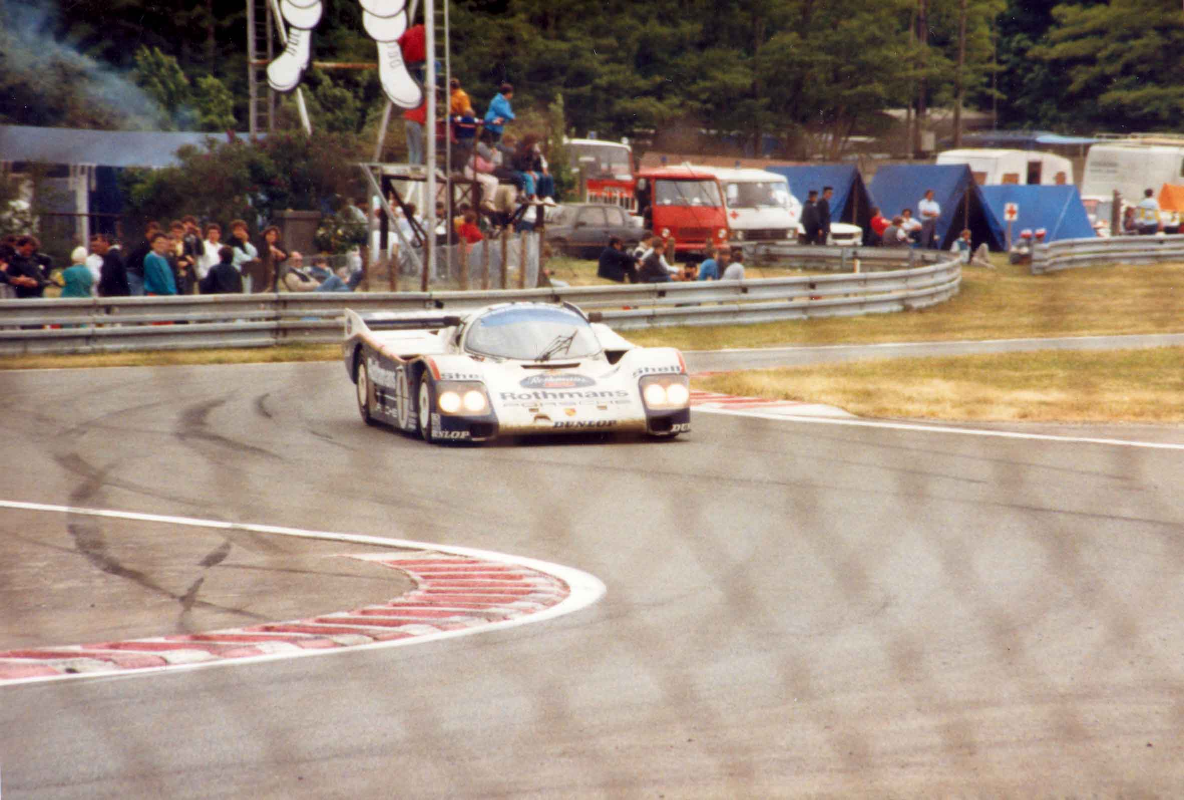 Derek Bell in the Rothmans Porsche 962C at Le Mans, June 1st 1986